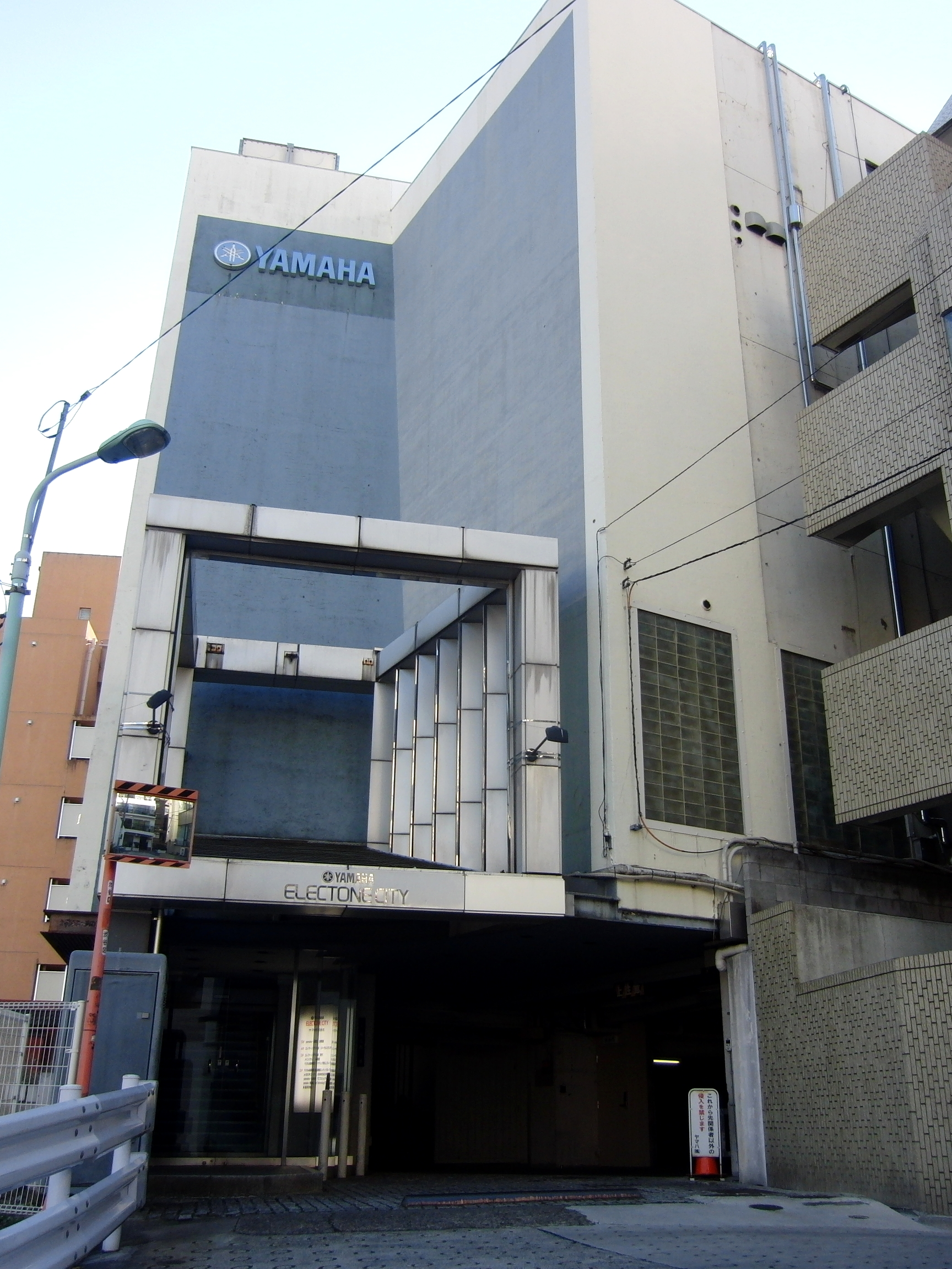 YAMAHA Electone City Shibuya. Sakuragaoka-cho, Shibuya, Tokyo, Japan.